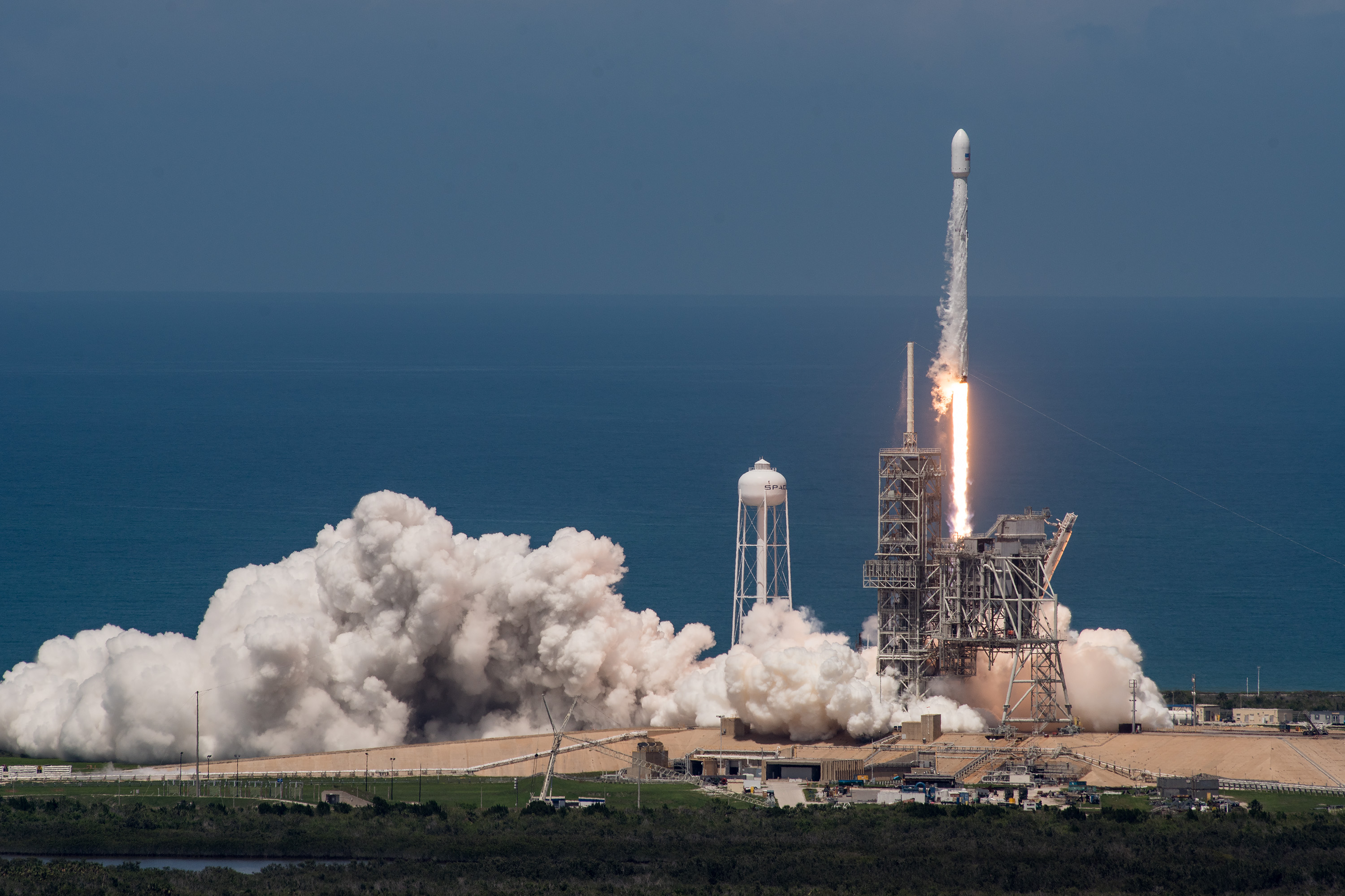 BulgariaSat-1 Mission